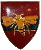 35 Engineer Support shoulder flash type 2